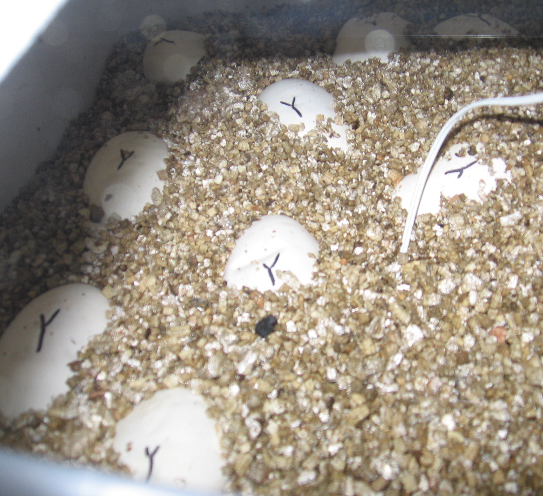 Ball python eggs being artificially incubated.